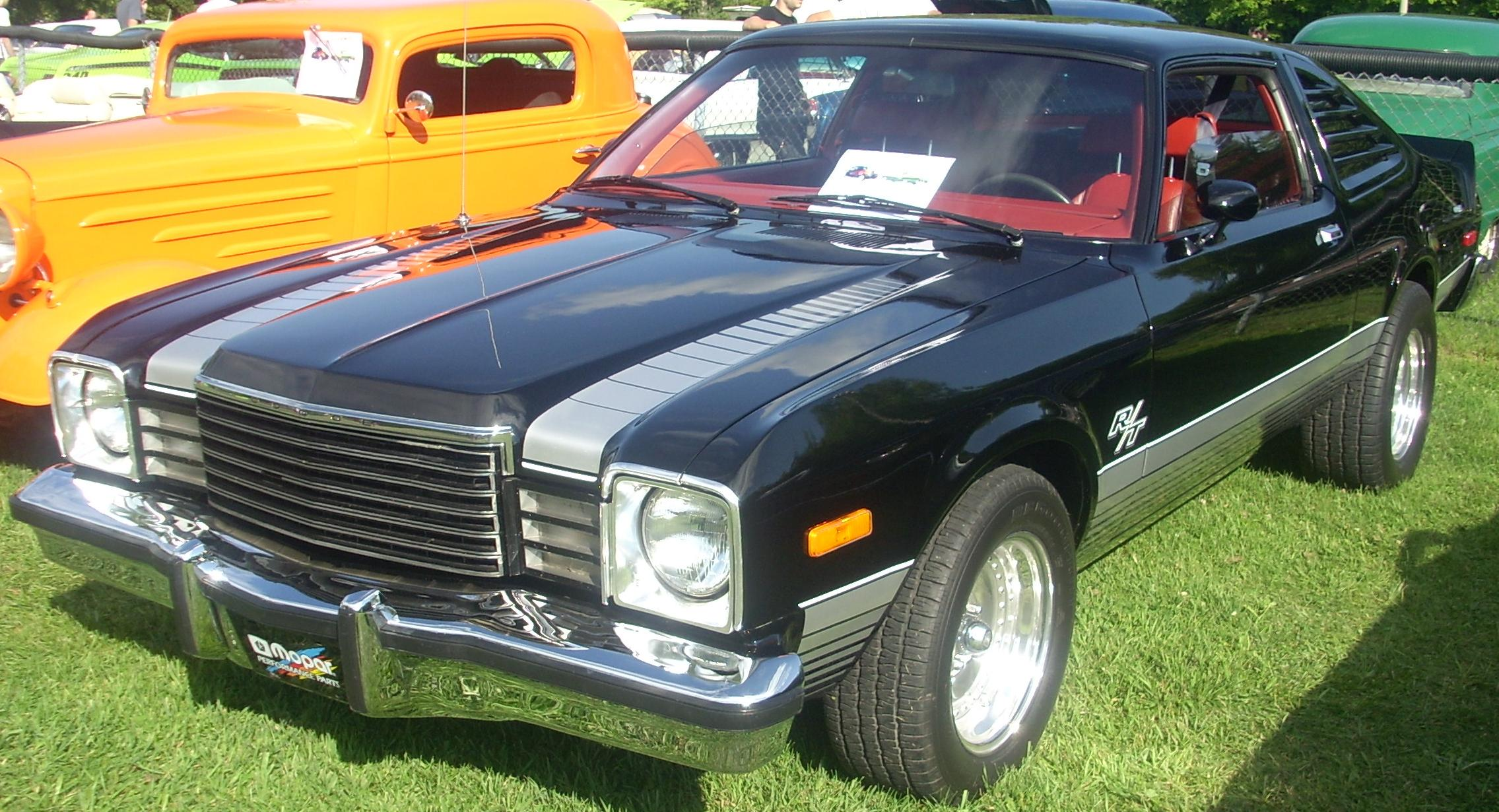 1979 Dodge Aspen photographed at the Rassemblement Rigaud Car Show.